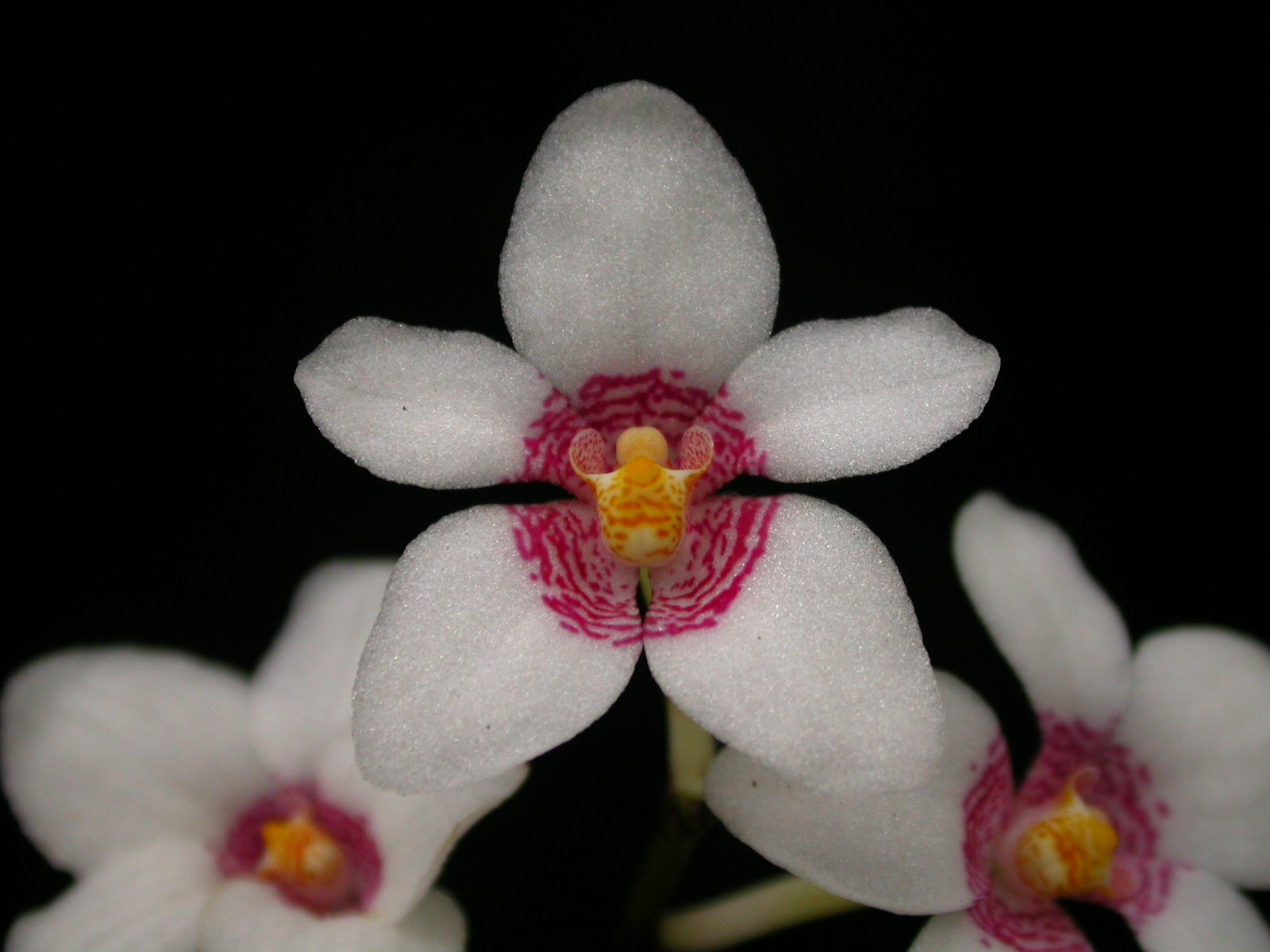 Sarcochilus Fitzhart (artifical hybrid)